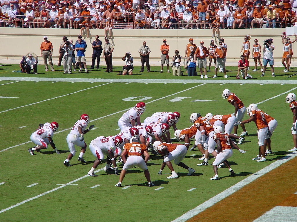 2003 Arkansas Texas match up in Austin, TX.